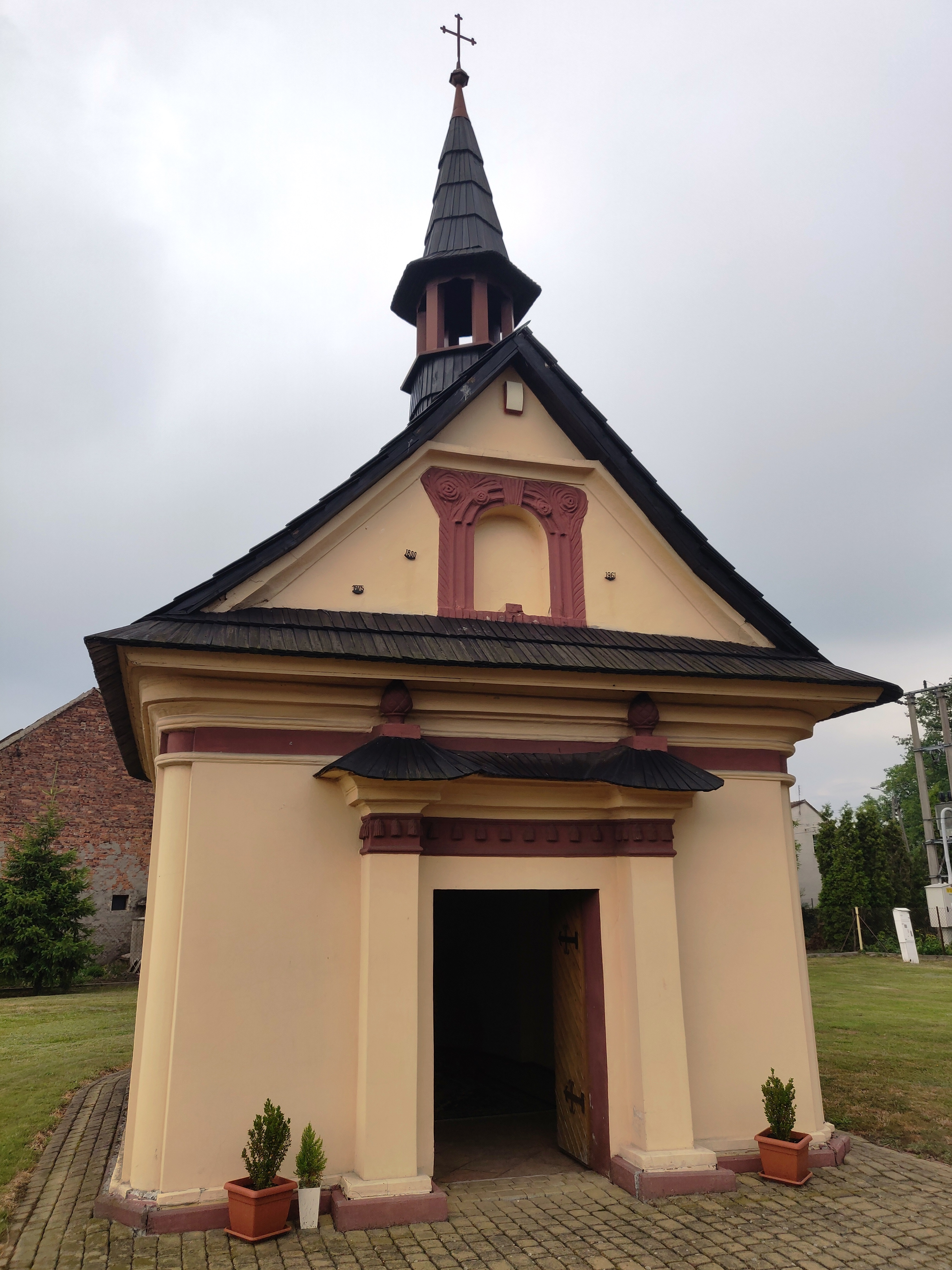 Holy Family chapel in Olza